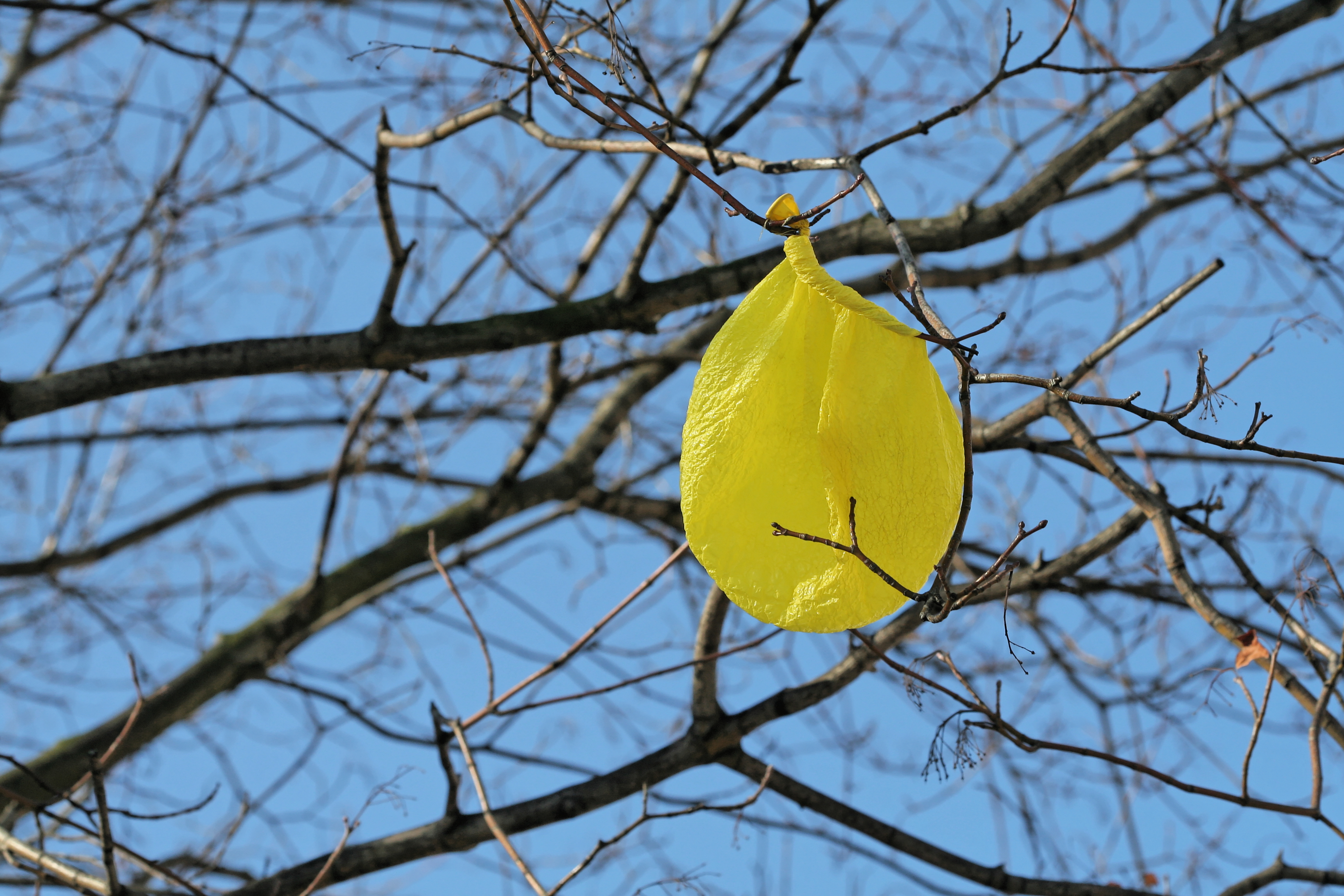 Toy baloon in a tree, quai de la Seine (Paris).